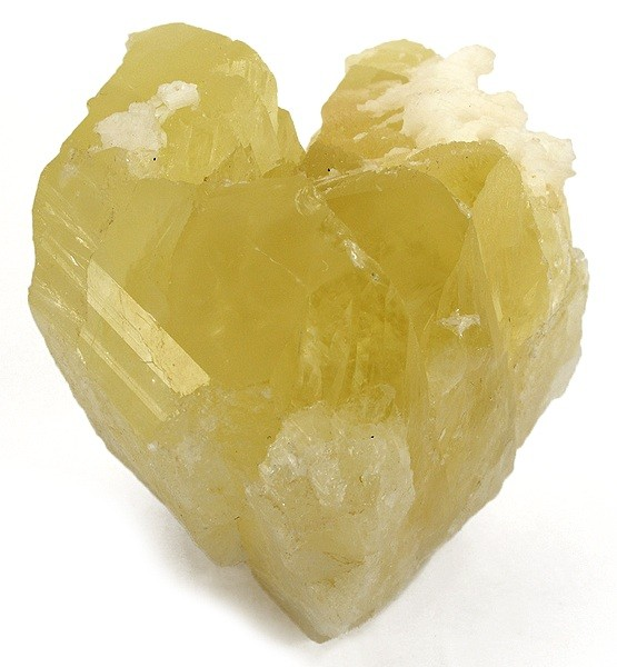 Montebrasite Locality: Linópolis, Divino das Laranjeiras, Doce valley, Minas Gerais, Southeast Region, Brazil (Locality at ) Size: 9.6 x 9.3 x 6.9 cm. This is a fist-sized cluster of thick, fat, intensely yellow montebrasite crystals with minor cleavelandite association. Clusters are very rare, and these chunky, deep-colored crystals really combine to make a fine overall specimen. The piece is not pristine, as it has some contacts around the edges and a few trivial dings on the display face as well. In person, this material from a modern find at this old locale has a rich color, almost an inside glow to it, that is hard to convey in photos. Weighs 577 grams.